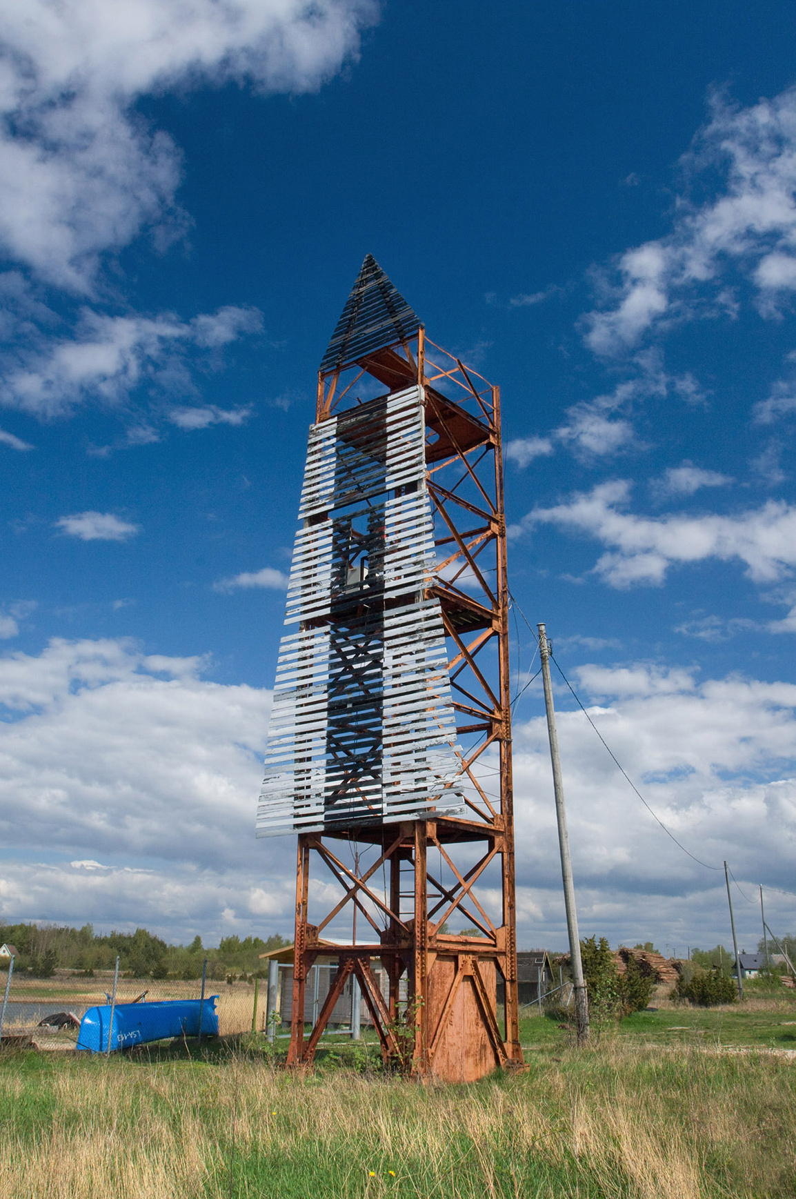 Rohuküla front light beacon